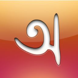 Avro Keyboard Logo